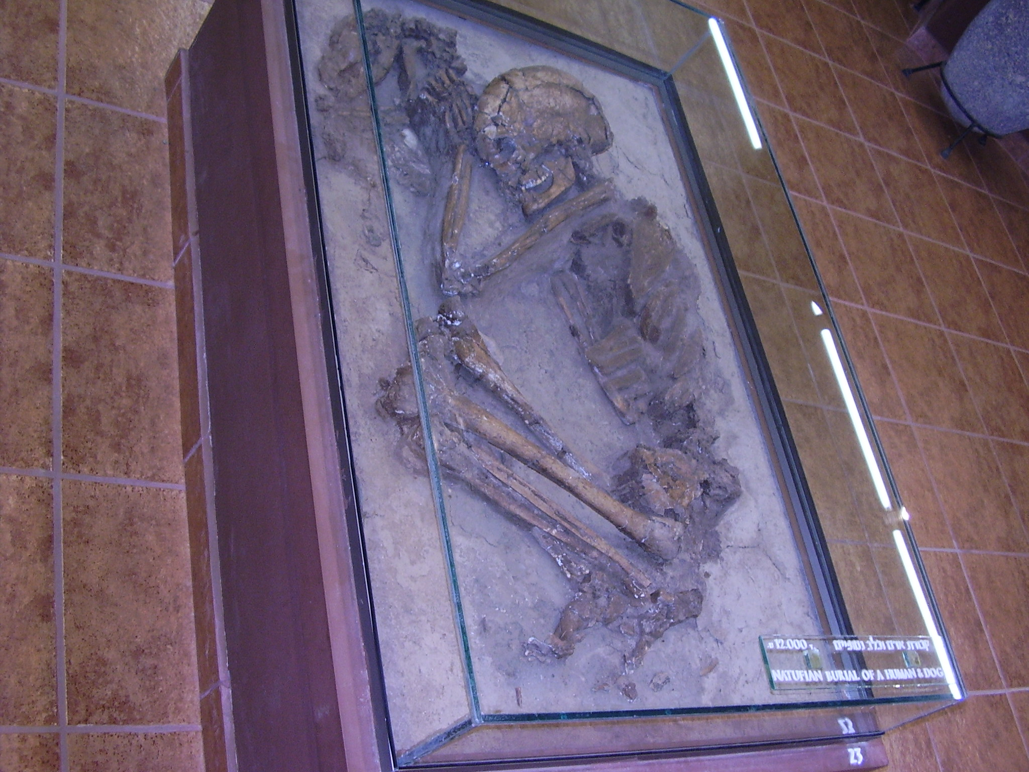 The Prehistoric man museum in Kibbutz Ma'ayan Baruch